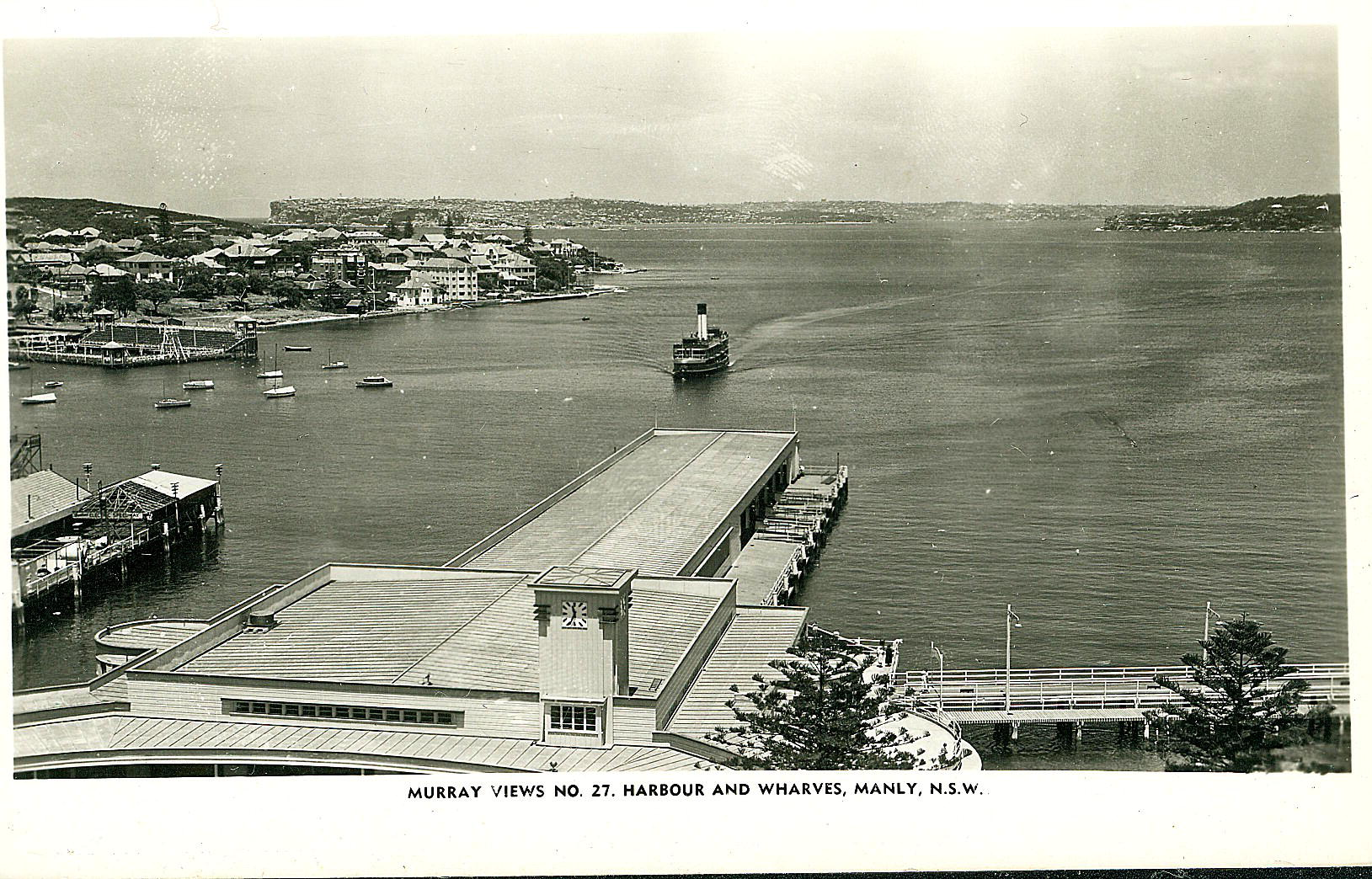 Ferry BALGOWLAH nears Manly. postcard Murray views. File 079/079143 DESCRIPTION BARRENJOEY's Master has altered course and has lined up his course for the eastern side of the ferry wharf. DATE 1950s FORMAT Digital image only. Many of the images in this collection are available as hi-res jpegs. Please contact the City of Sydney Archives (archives@ .au) on a case by case basis. RECORDSERIES Sydney Reference Collection CITATION Graeme Andrews 'Working Harbour' Collection: 79143 PROVENANCE City of Sydney Archives NOTES S105211